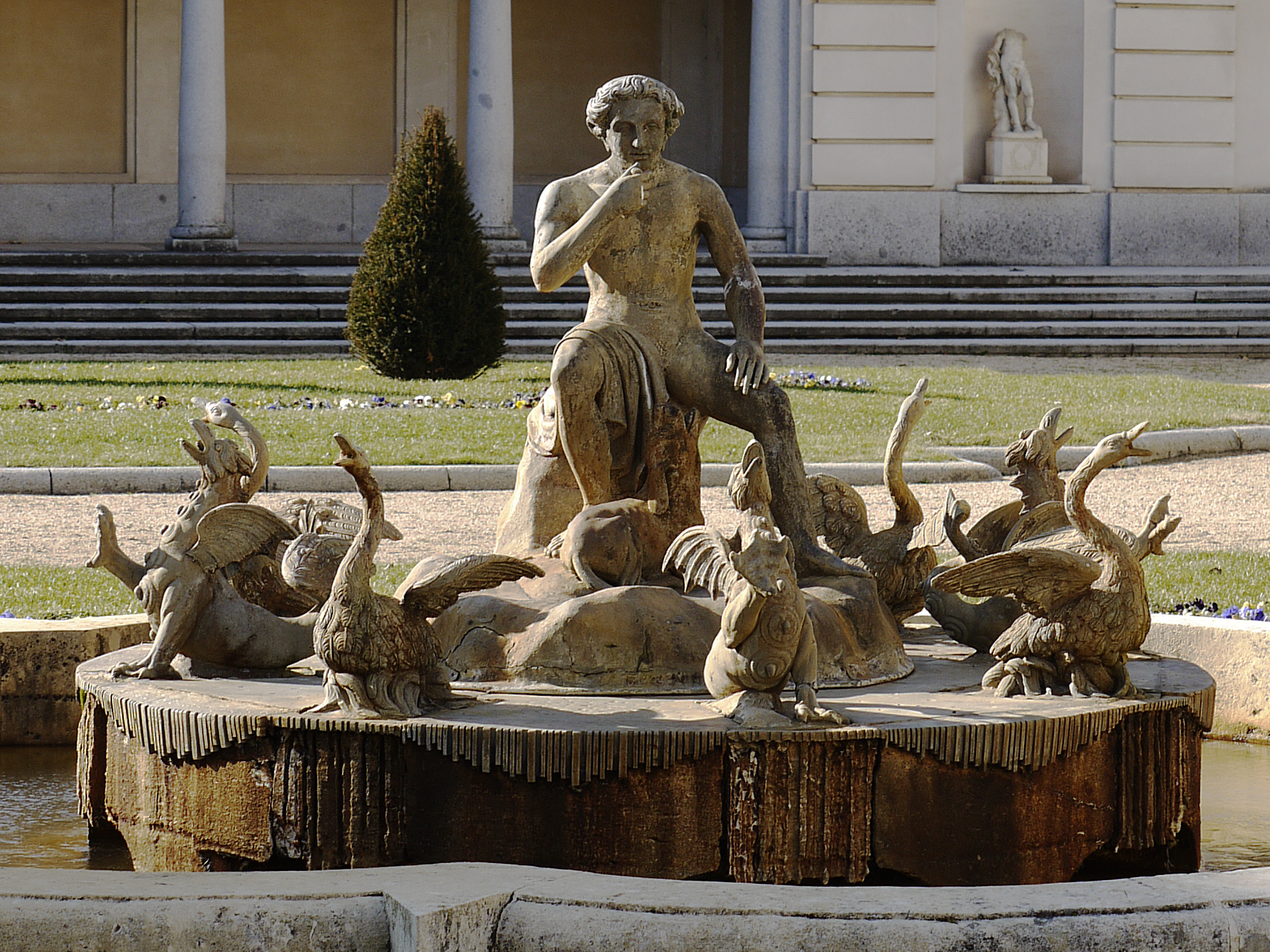 Royal Palace of El Pardo, Madrid, Spain. Funtain in the yard. Close up picture.